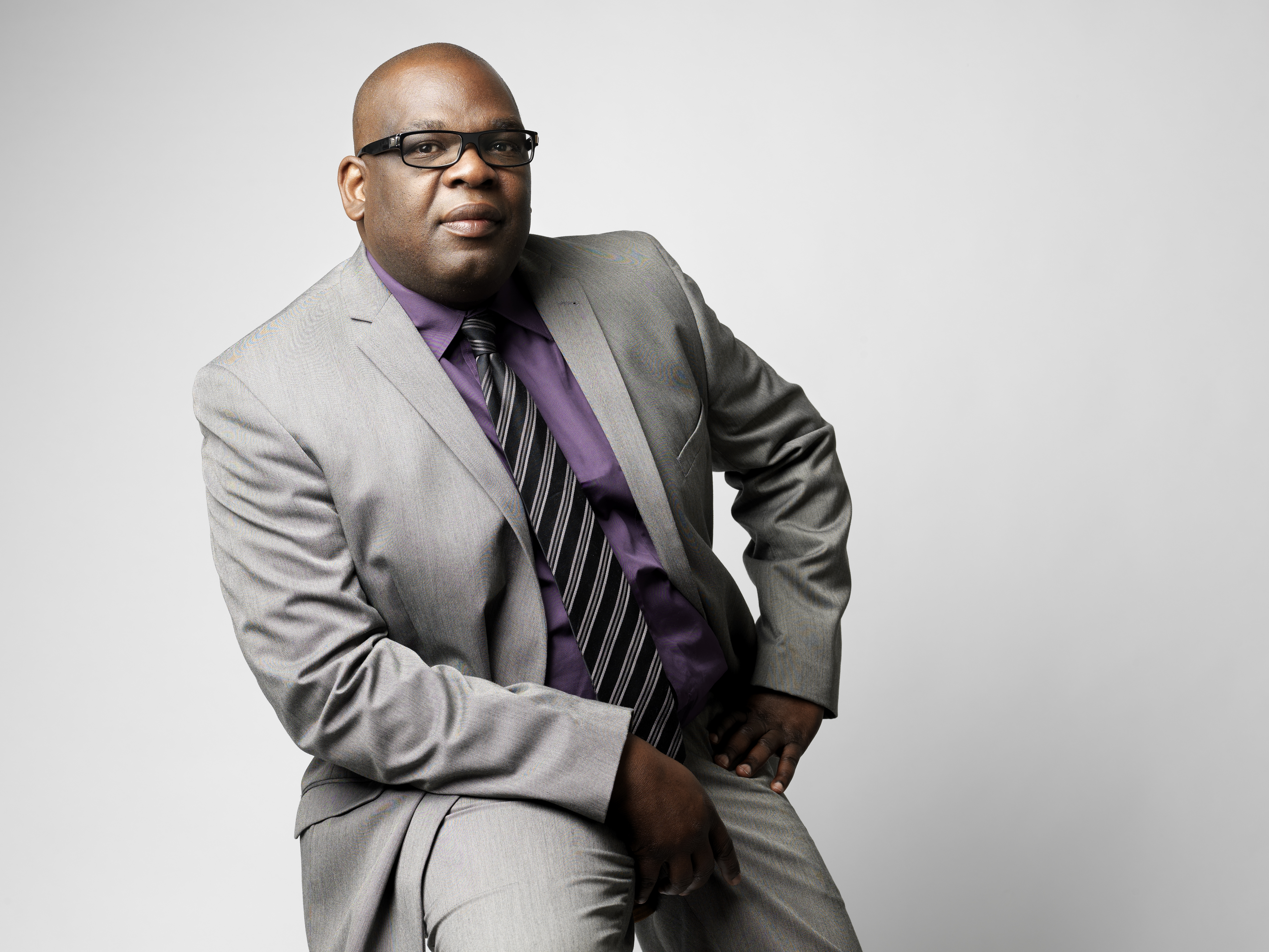 Photo Portrait of Monsieur Bicep, director of Europe Écologie Les Verts